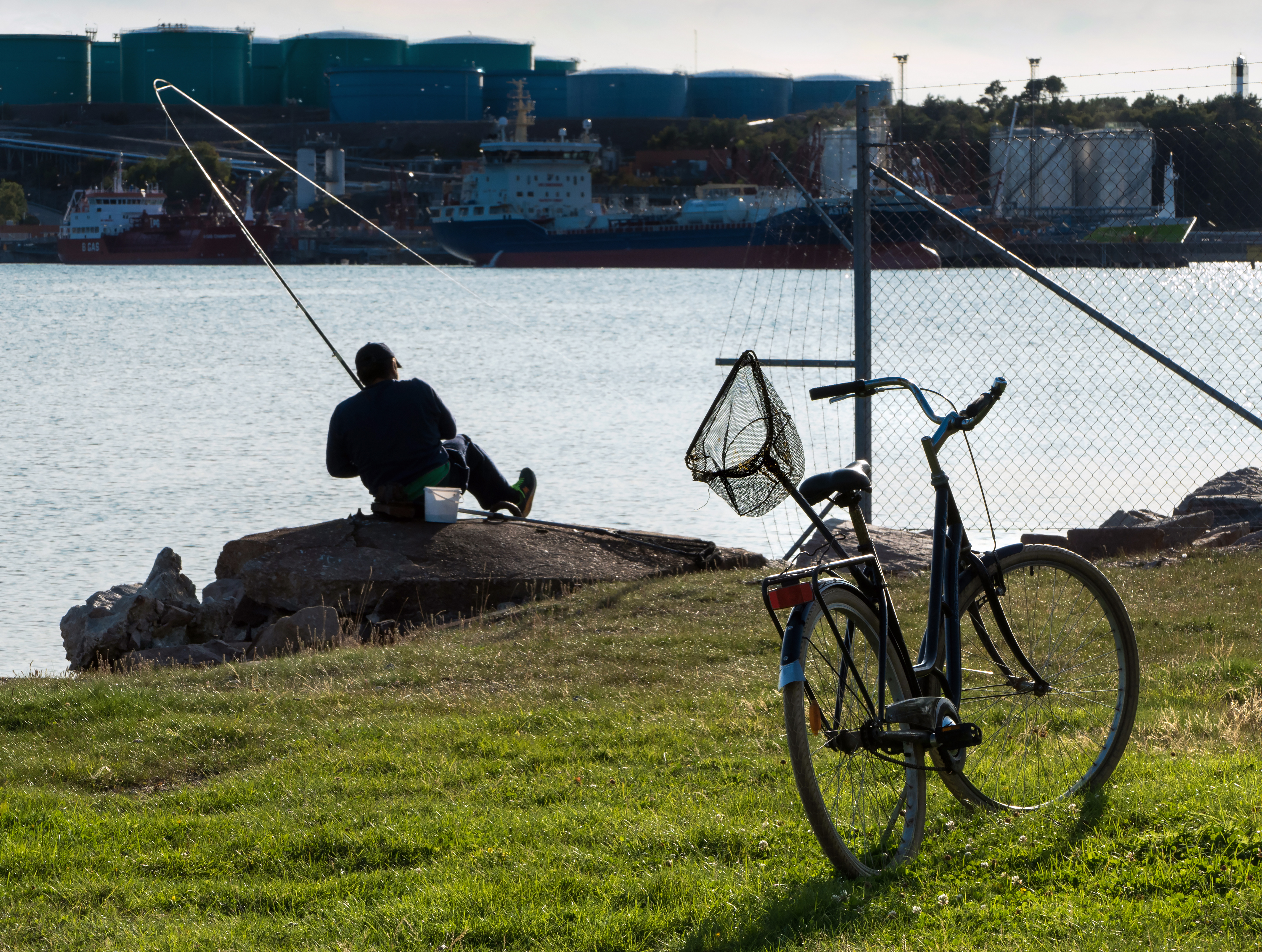 A man fishing in Brofjorden at Lahälla, Lysekil Municipality, Sweden; his bicycle parked next to him. He is just pulling in a fish here. On the oposite shore of the fjord is the Preemraff Oil Refinery.